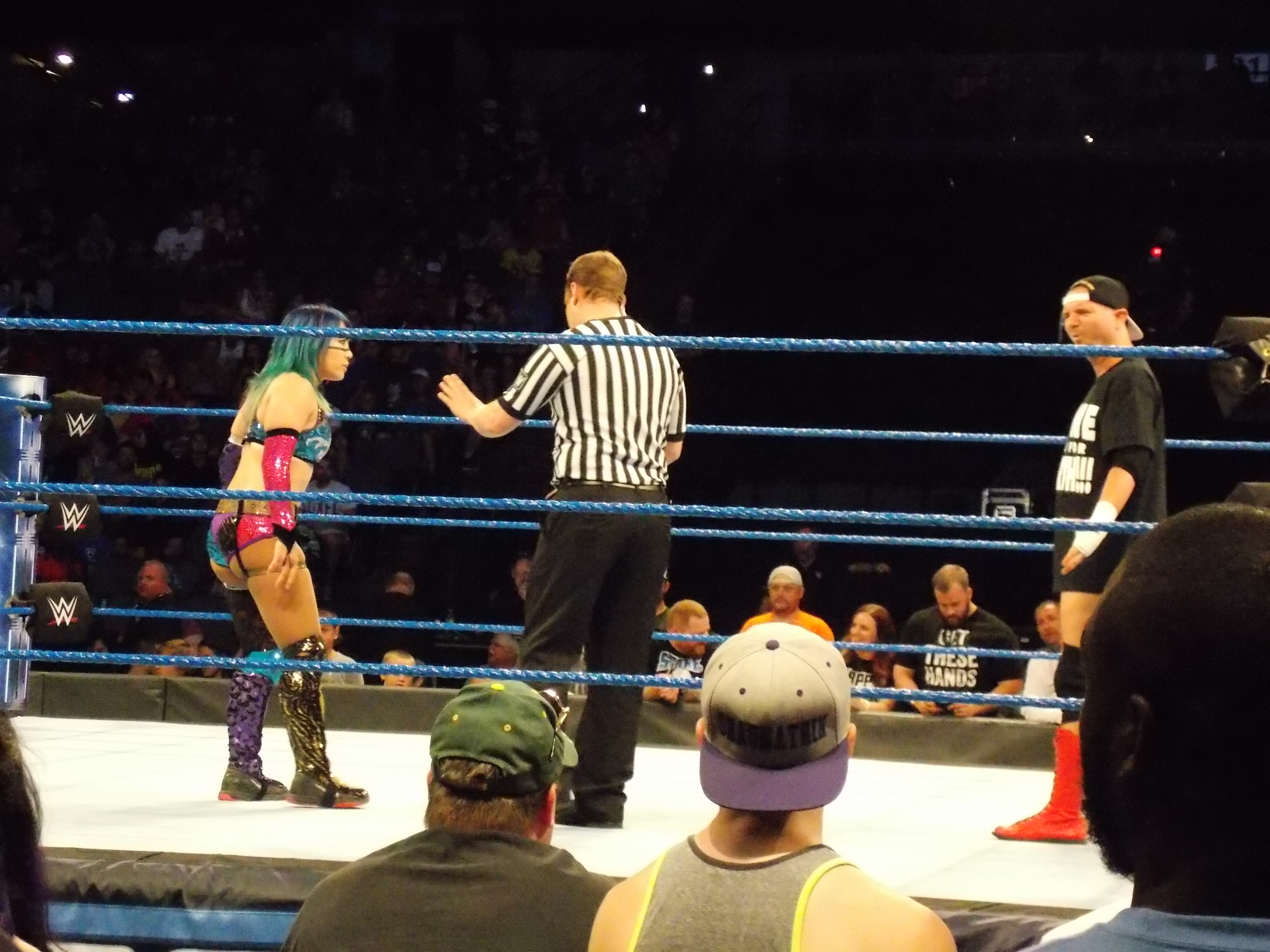 Asuka vs. James Ellsworth at WWE SmackDown Live in Omaha, Nebraska, USA on Tuesday, July 3, 2018